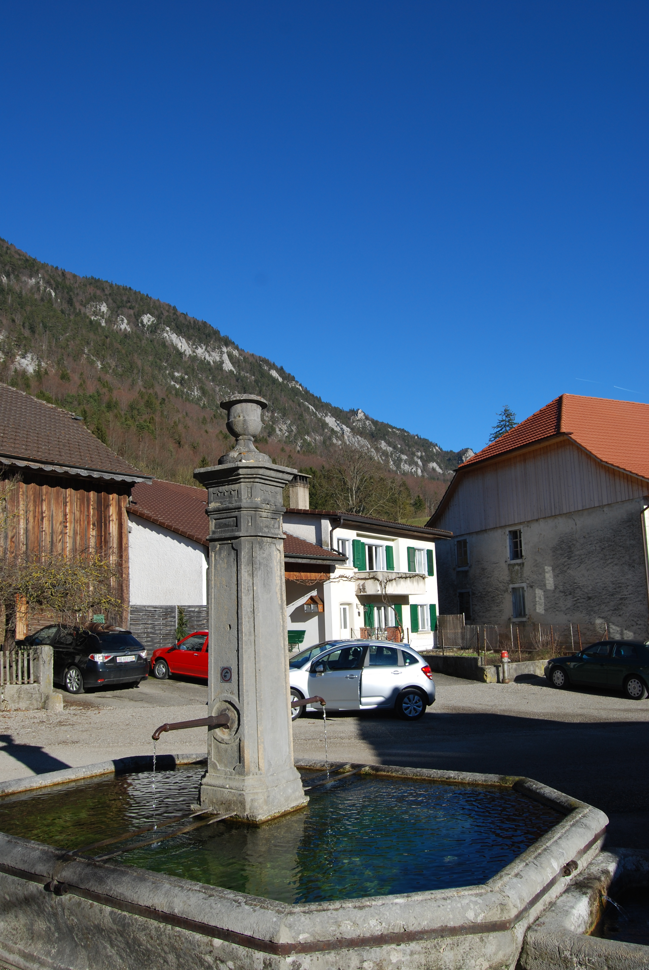 Village fountain at Belprahon, canton of Bern, SwitzerlandEsperanto: Vilaĝa puto en Belprahon, Kantono Berno, Svislando